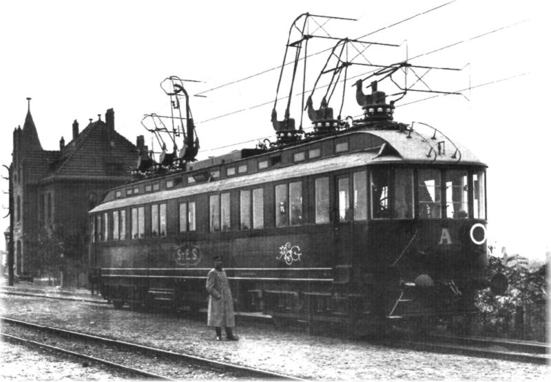 Three phase experimental railcar, manufactured by AEG in 1901, run by Studiengesellschaft für Elektrische Schnellbahnen. Land speed record for rail vehicles, 28 October 1903, 210,2 km/h, between (Berlin-)Marienfelde and Zossen.